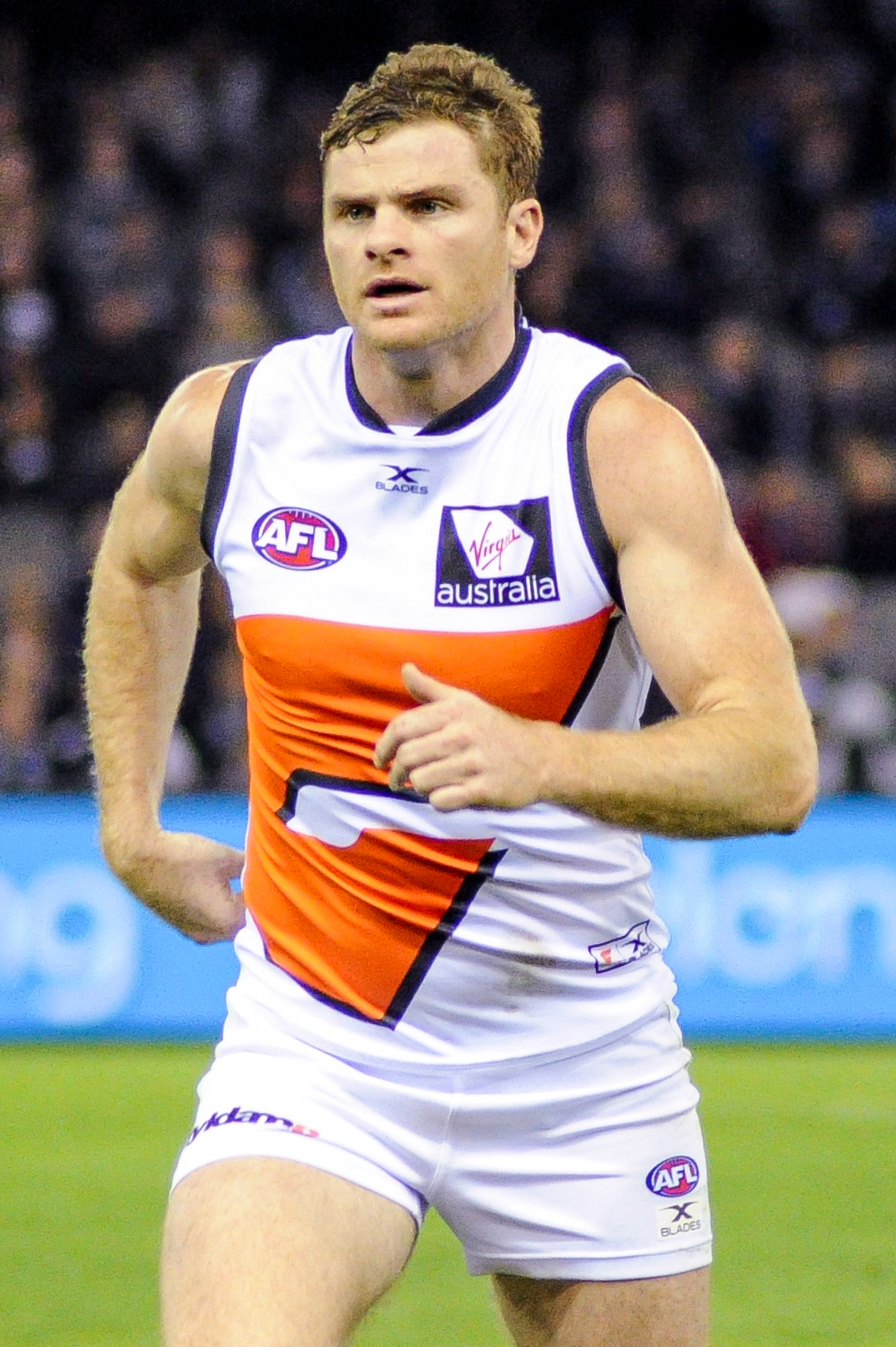 Heath Shaw during the AFL round twelve match between Carlton and Greater Western Sydney on 11 June 2017 at Etihad Stadium in Melbourne, Victoria.